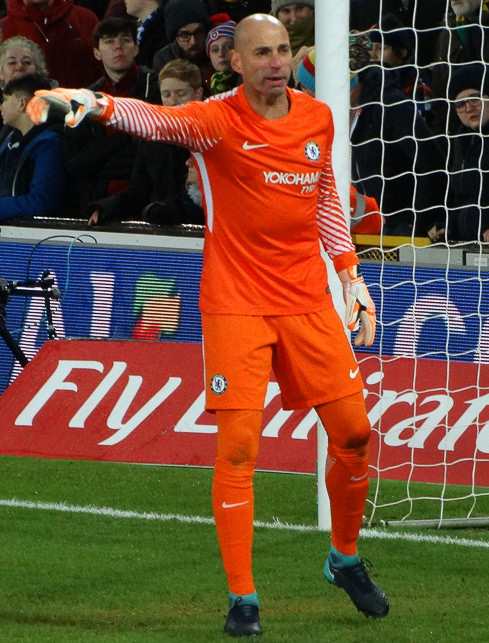 FA Cup 3rd round 6.1.18